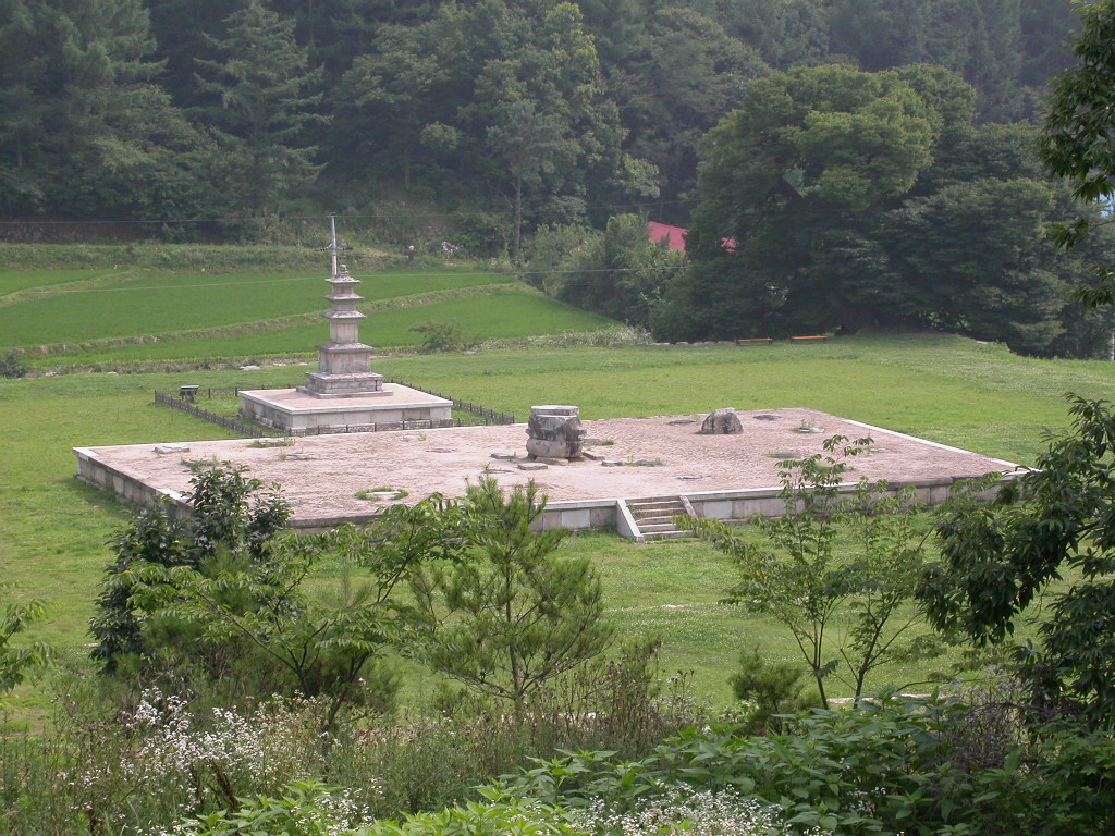 Geodonsaji Pagoda